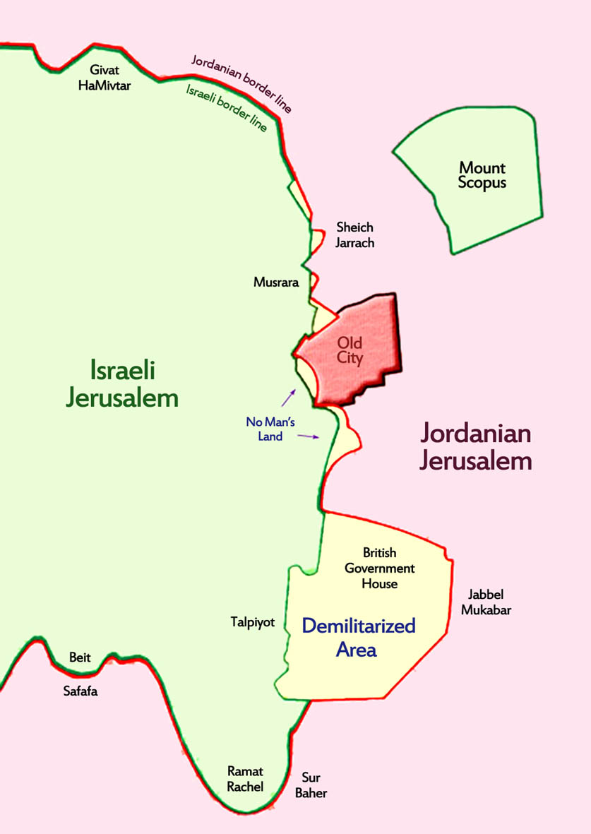 Map showing Jerusalem during 19 years btwn 1948-1967.